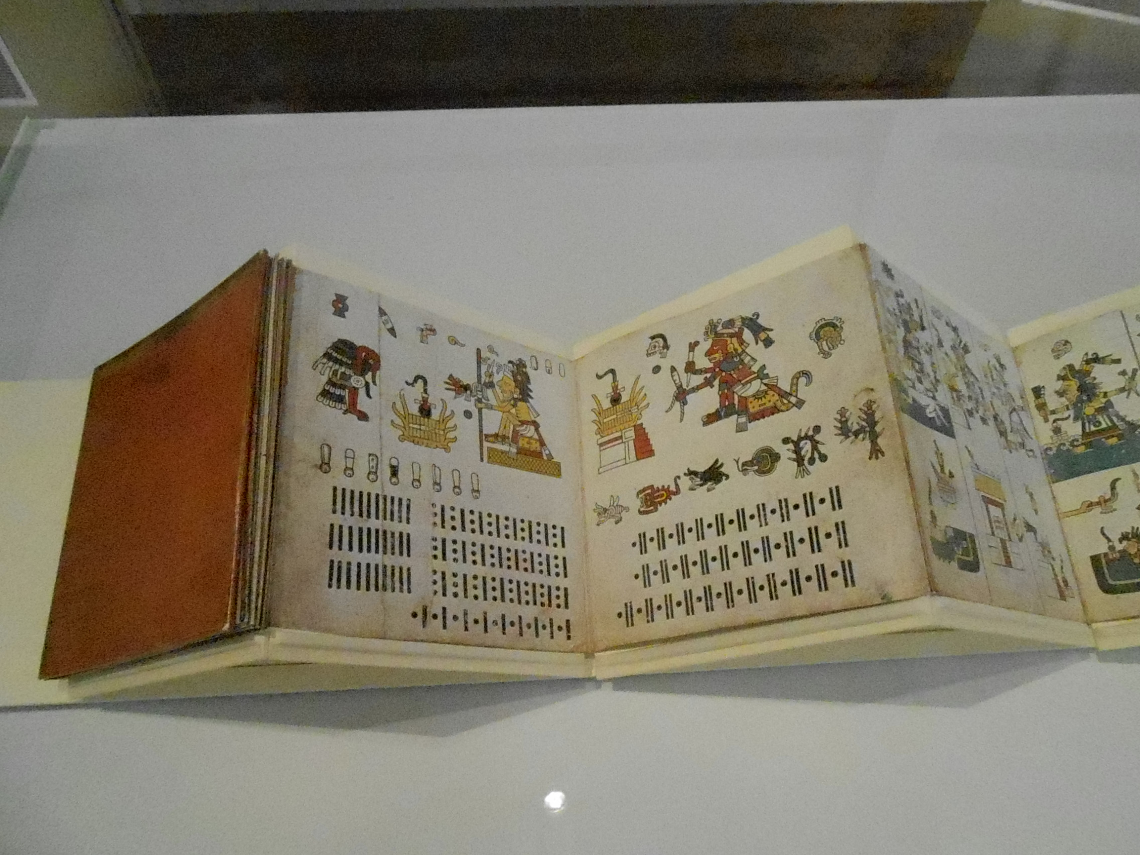 Photograph of the Codex Fejérváry-Mayer, on display at the World Museum Liverpool, England.